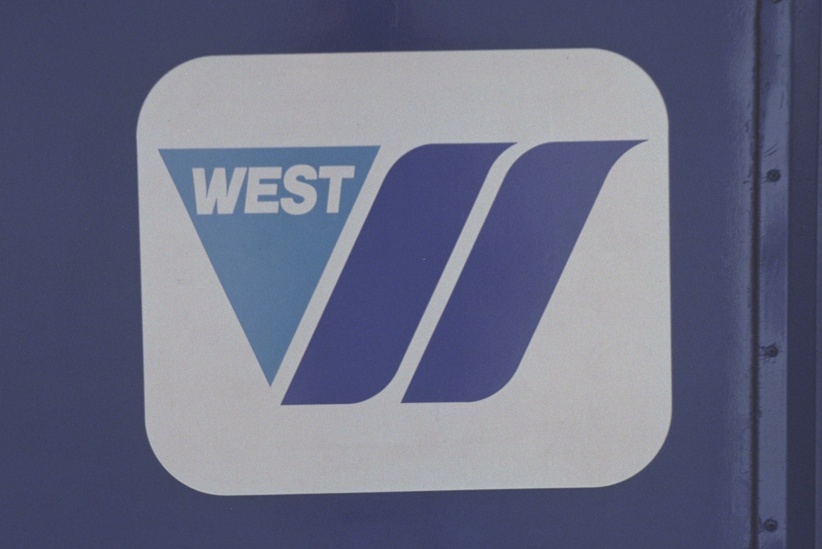 "West Hikari" logo on the side of a JR West 0 series shinkansen set